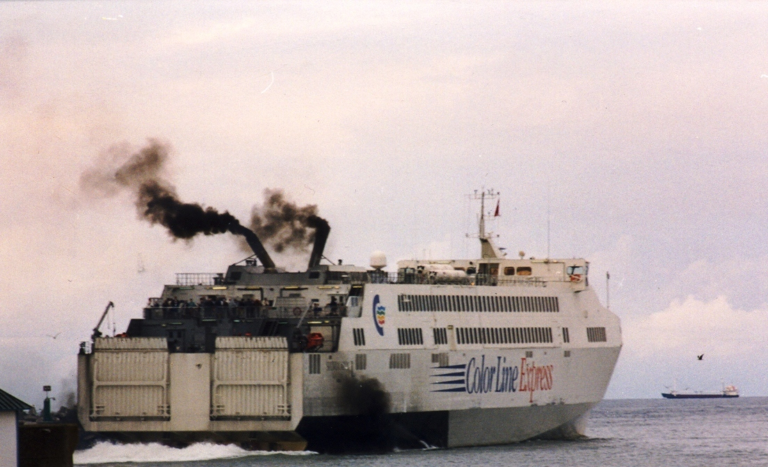 Exhaust fumes of a laeving High Speed Norwegian Ferry